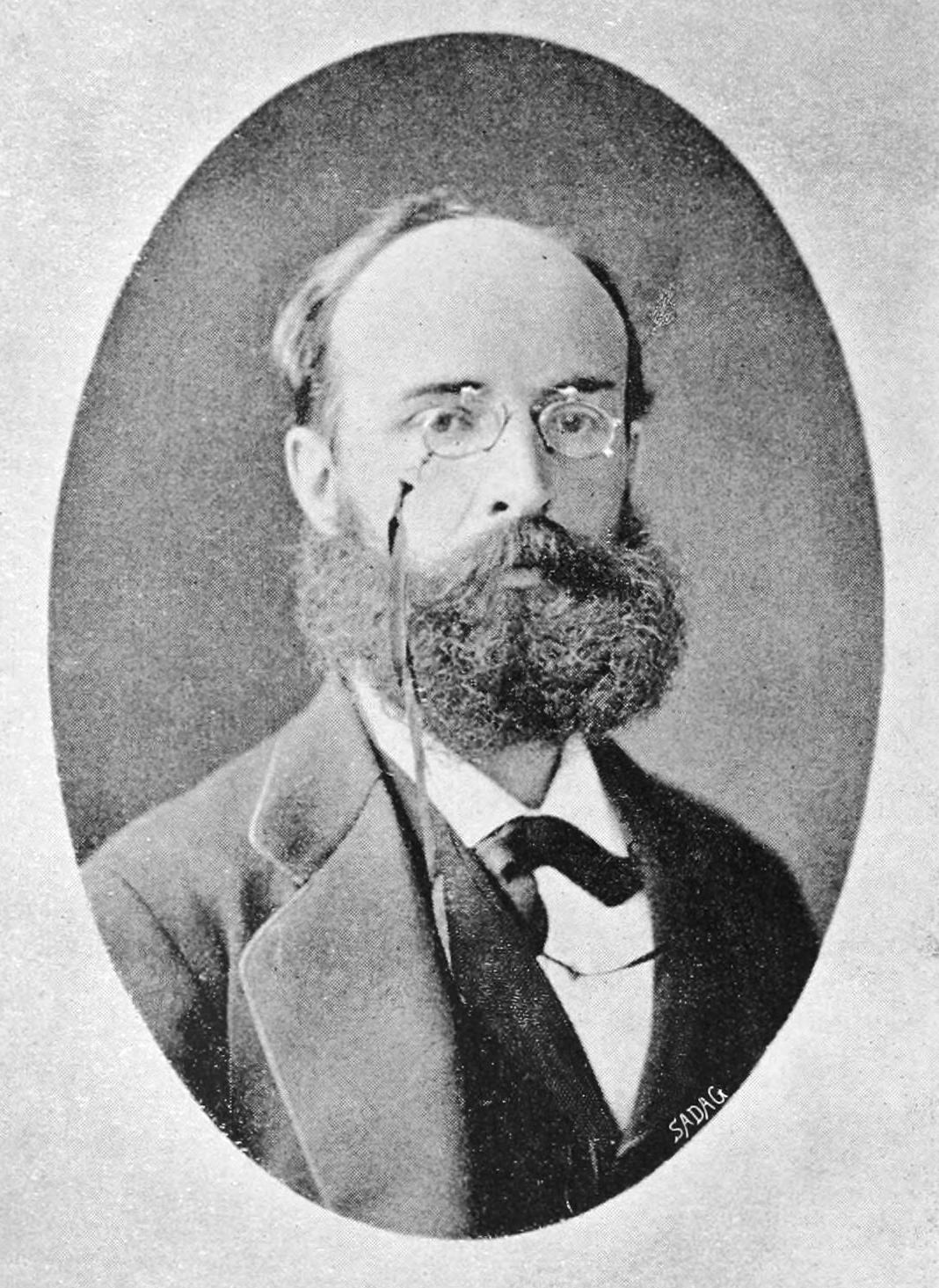 Hermann Fol